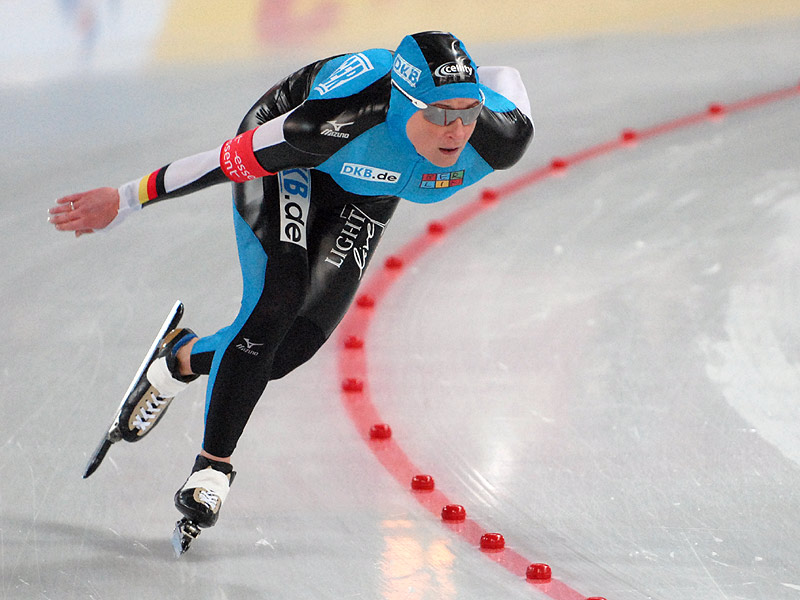 Claudia Pechstein at the 2008 World Cup in Hamar.